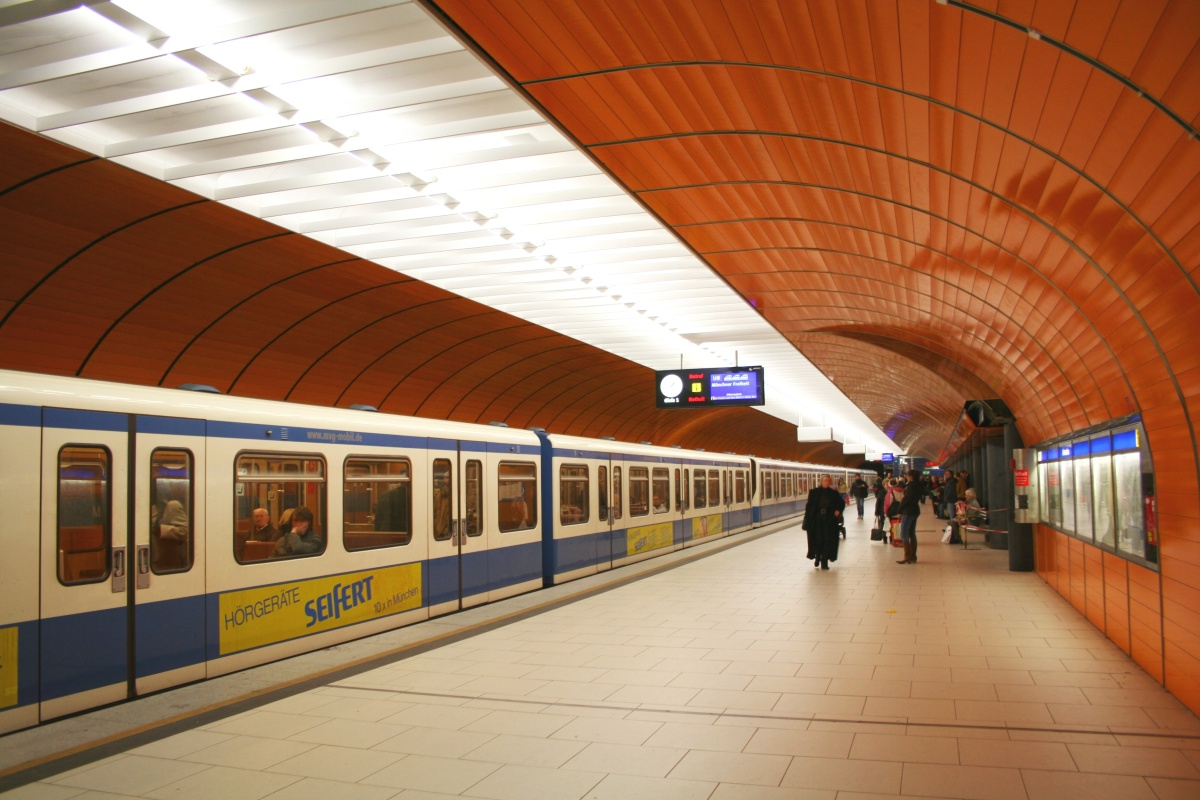 Munich subway station Marienplatz